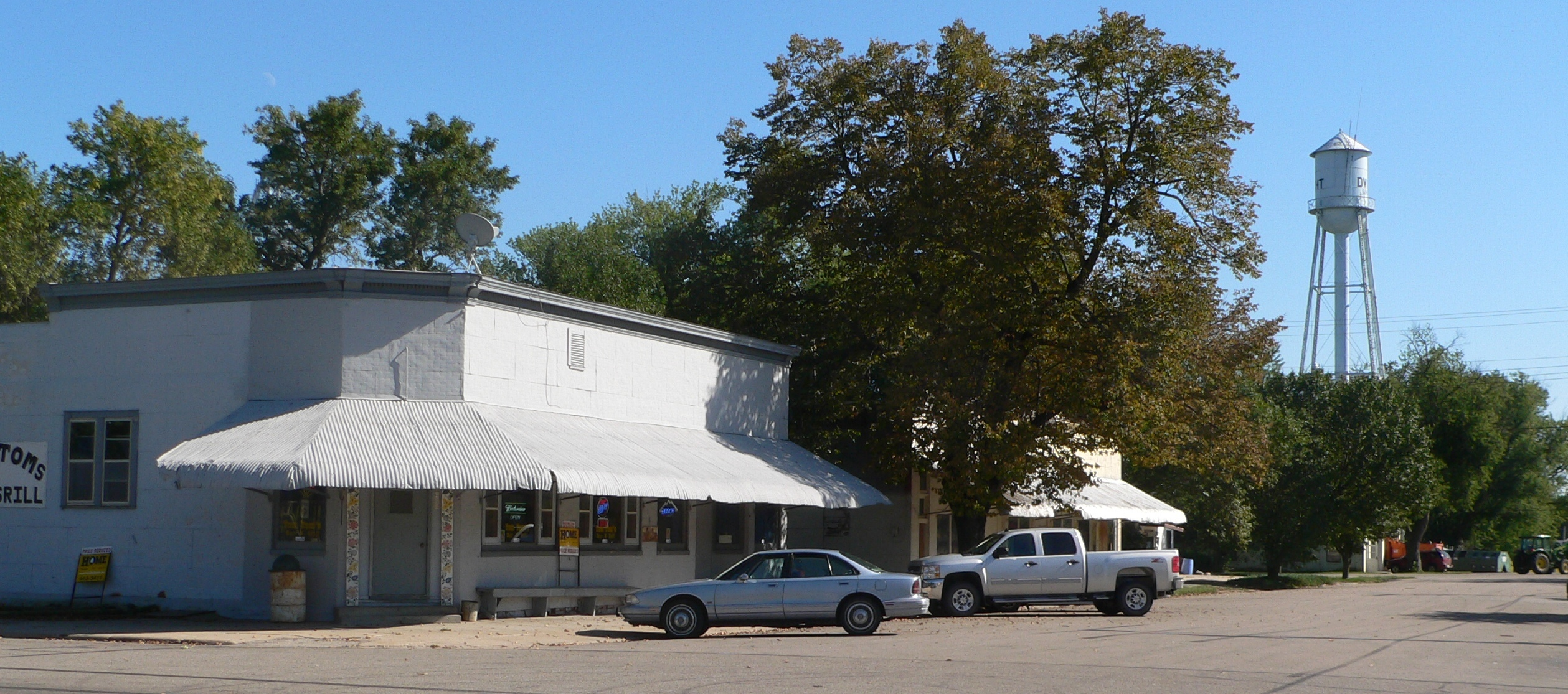 Downtown Dwight, Nebraska: east side of Second Street, looking southeast from Pine Street.